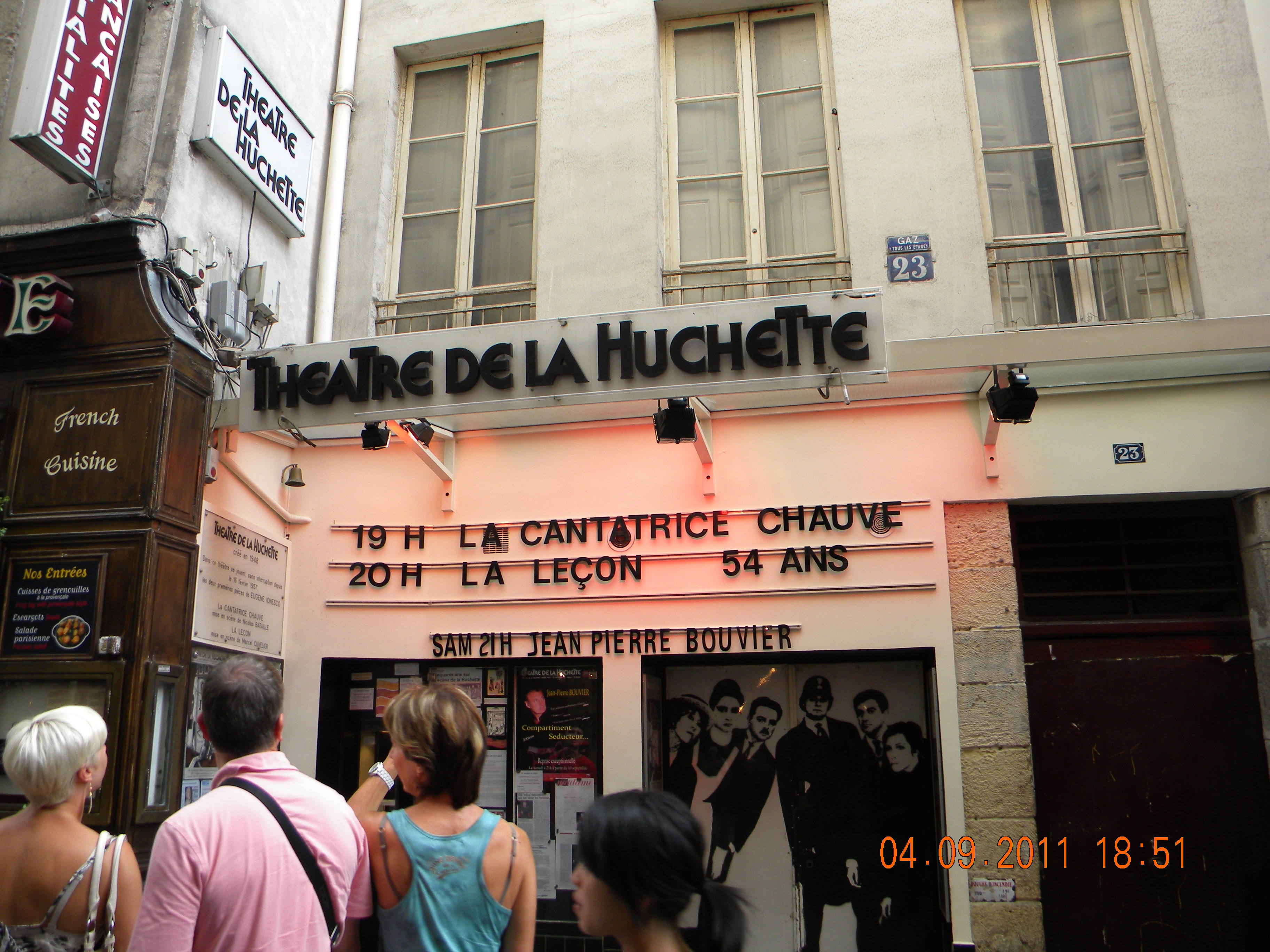 Theatre de la Huchette, Paris (2)